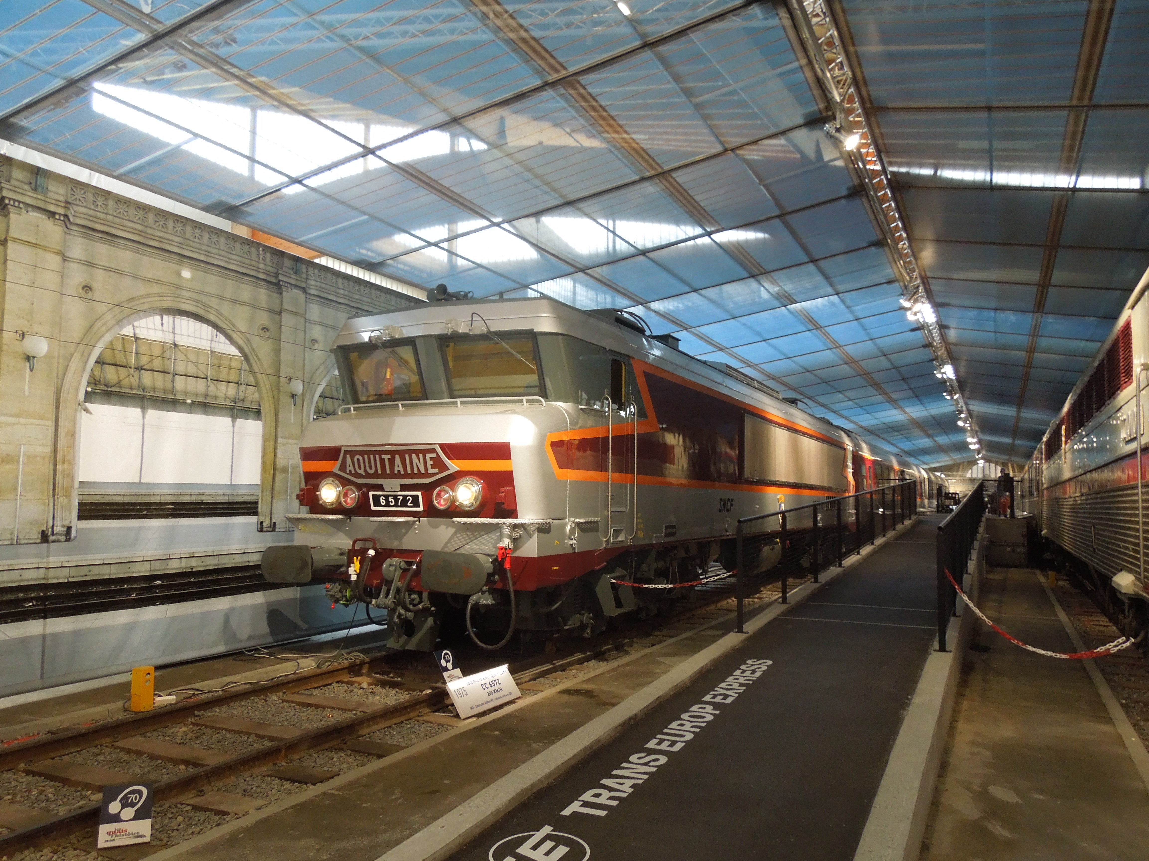 The Cité du train railway museum in Mulhouse